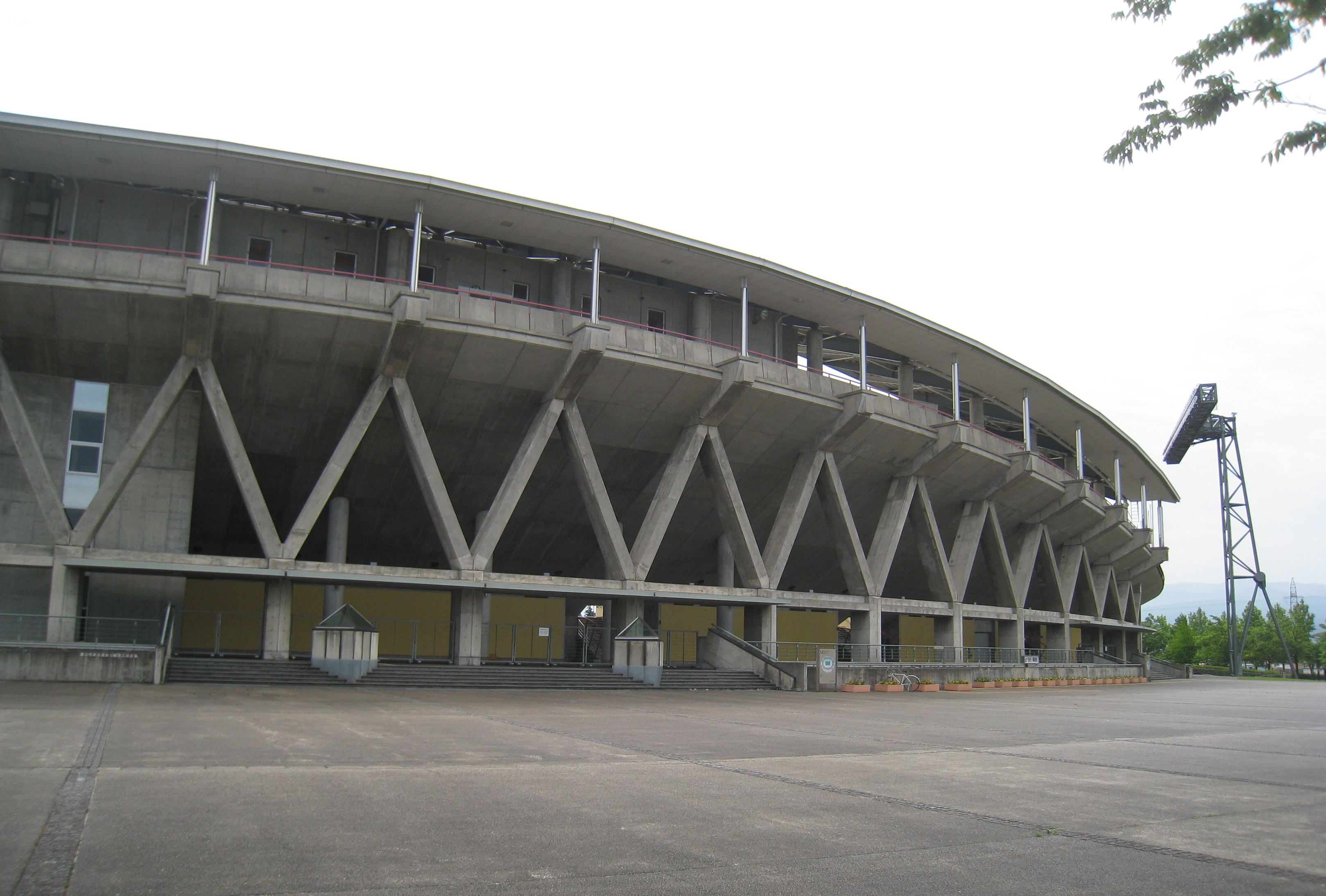 Toyama global athletic park main stadium.(Toyama-city,Yoyama-Pref,Japan)